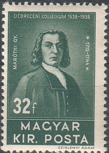 Stamps issued to commemorate the 400th anniversary of Reformed College of Debrecen (György Maróthi) Denomination: 32 fillér A Debreceni Kollégium 400. évfordulójára kiadott sorozat Maróthi Györgyöt ábrázoló bélyege Érték: 32 fillér